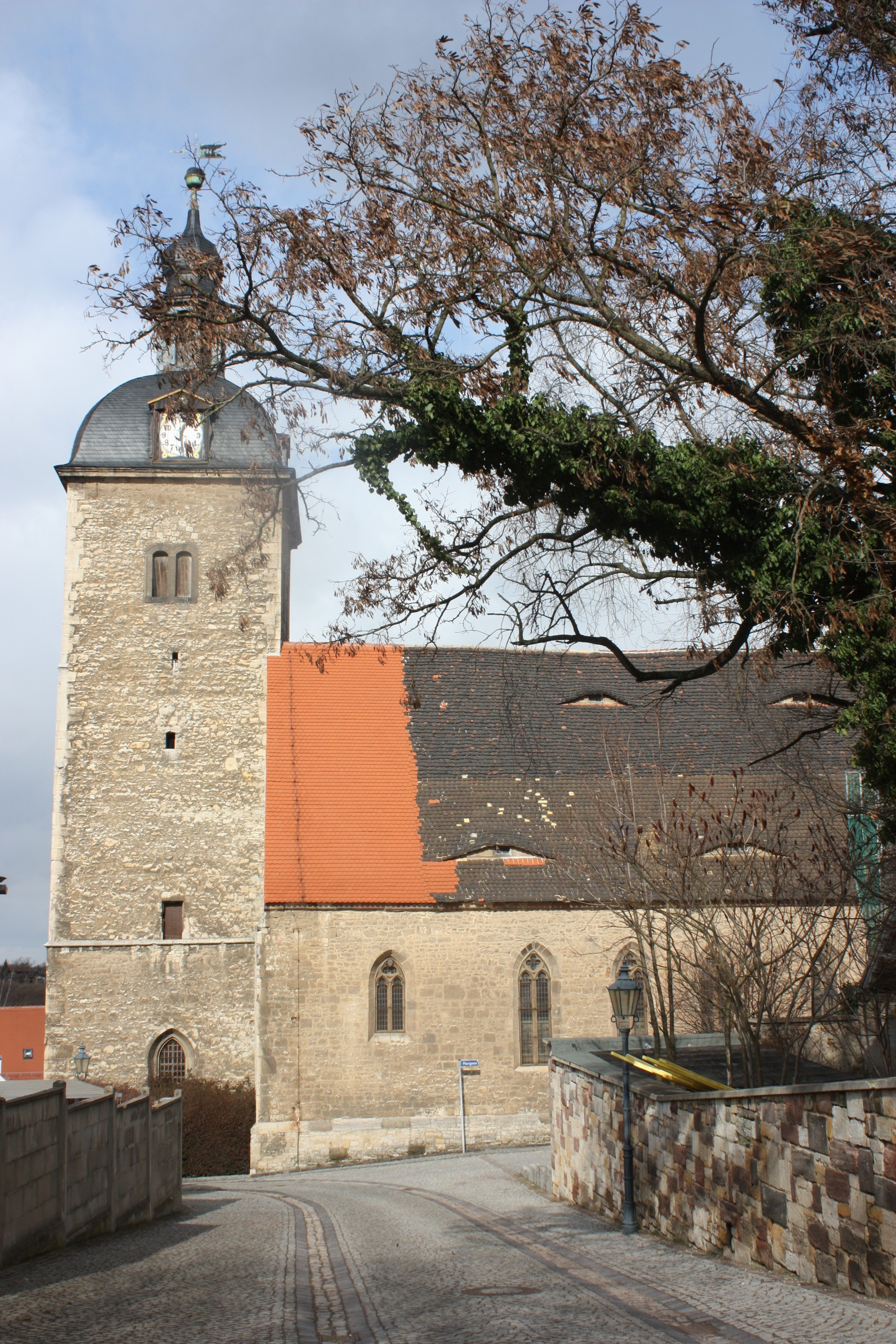 Mücheln (Geiseltal), the St. Jacob church